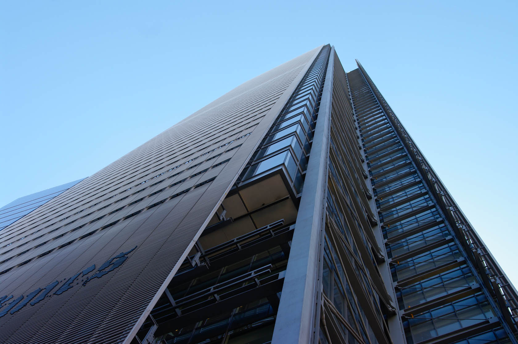 New York Times Tower seen from streetlevel